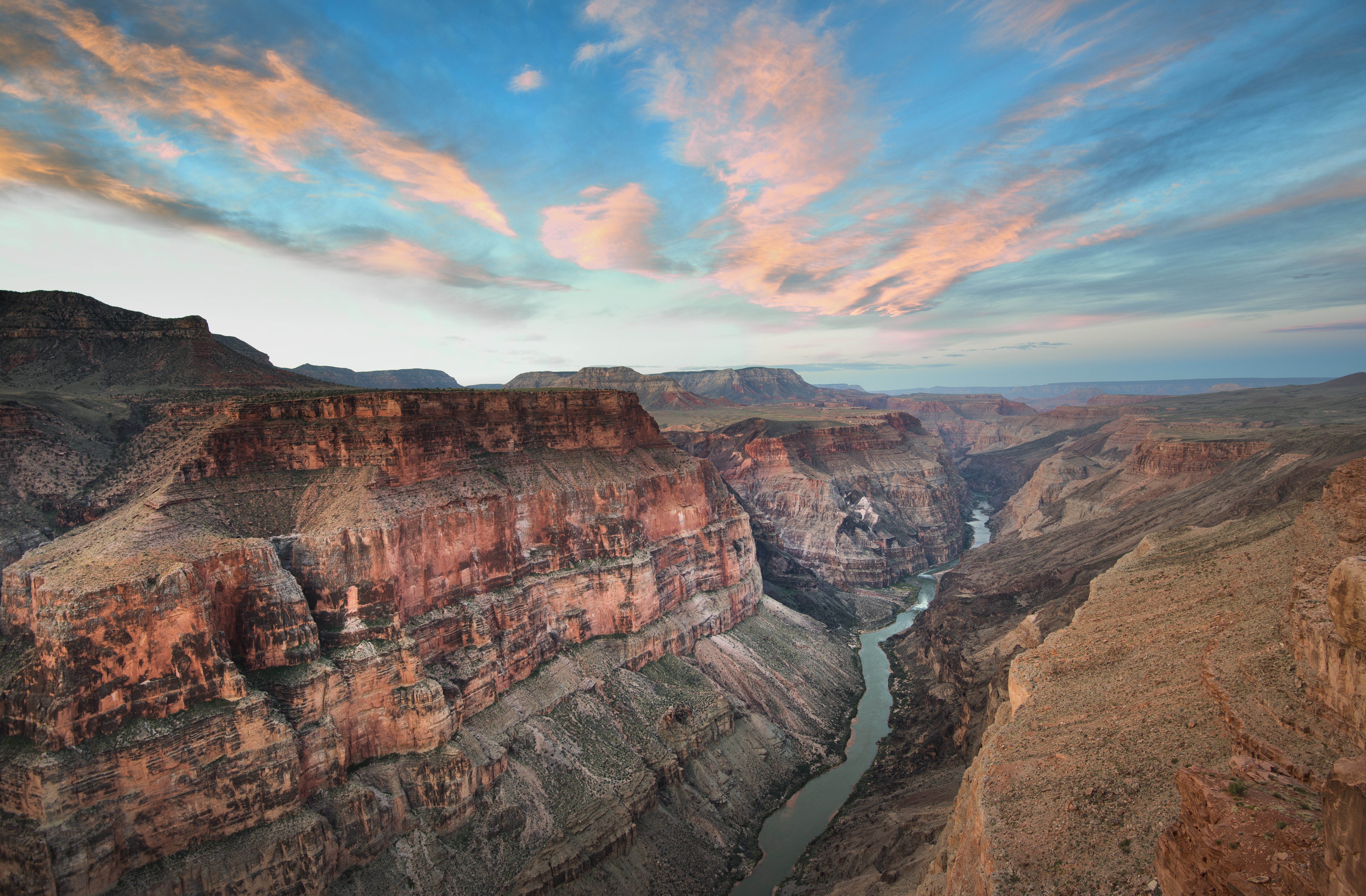 View looking west (downstream) from the Toroweap outlook in the Grand Canyon, Arizona. You can see Lava Falls.